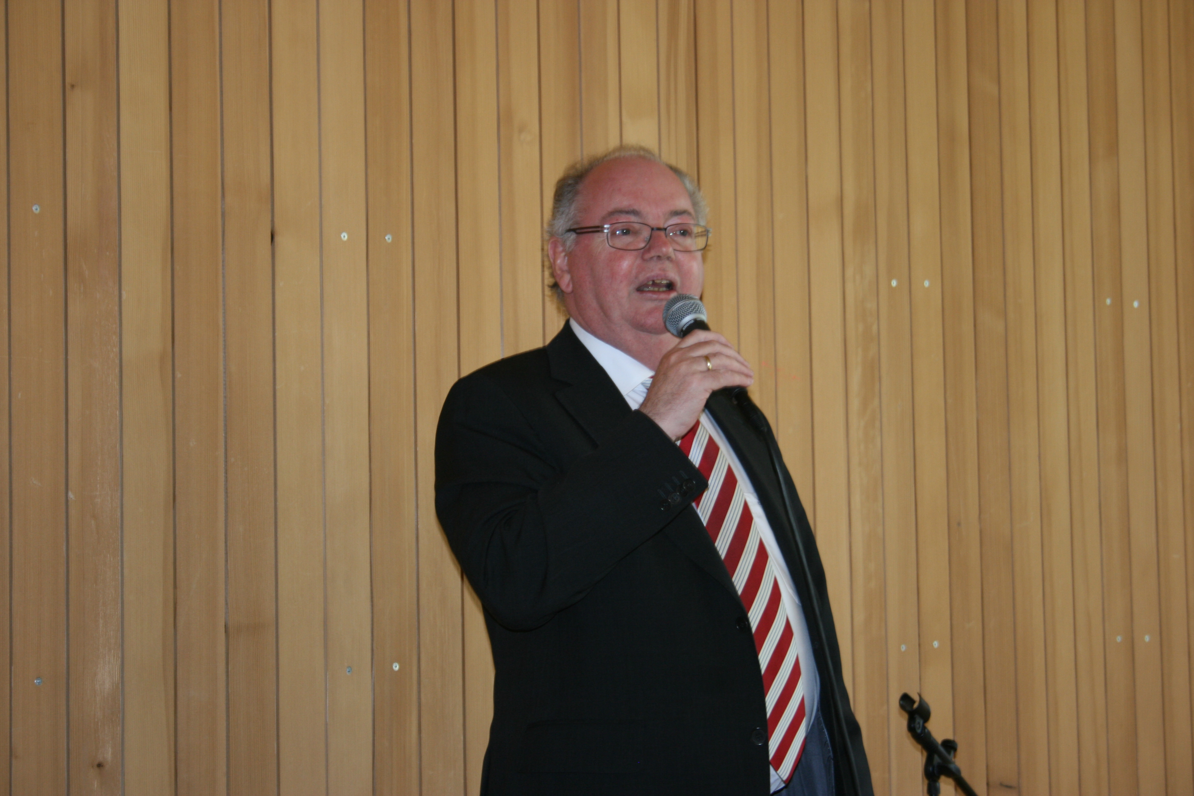 Self-made photo of DI Wolfgang Rümmele, mayor of Dornbirn during a speech at the annual excursion of the 80-years-olds of Dornbirn in Bizau 2008.